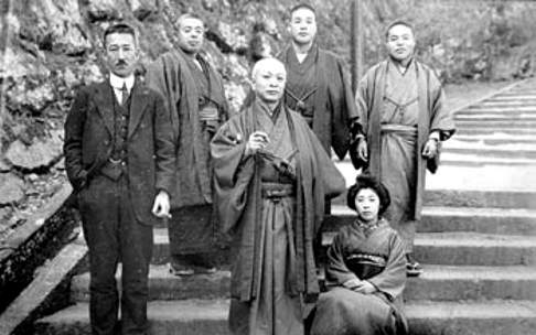 Ryu Mizuno (at center), who organized the first travel of japanese immigrants to Brazil